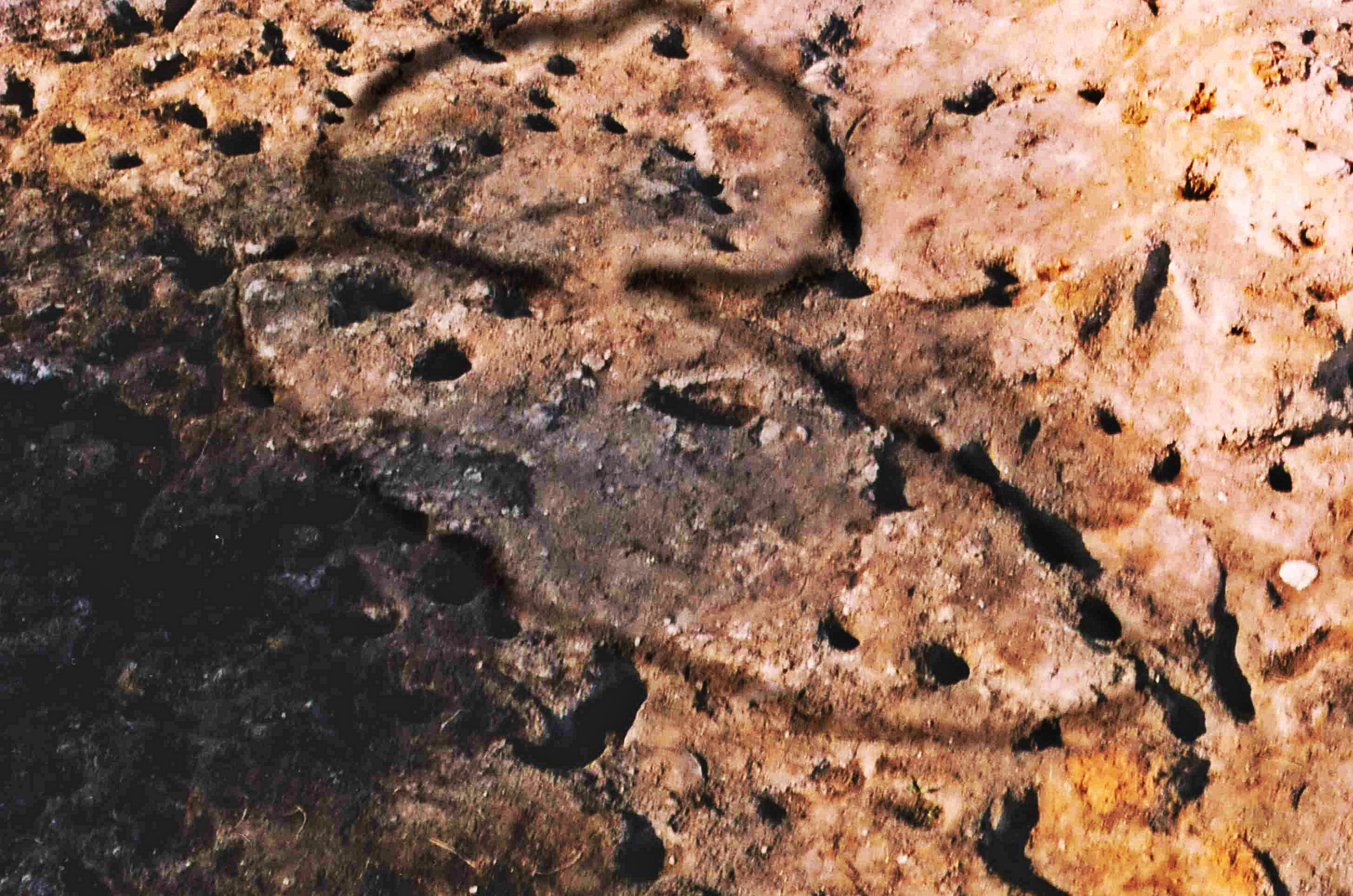 Solar disk fish Dolnoslav